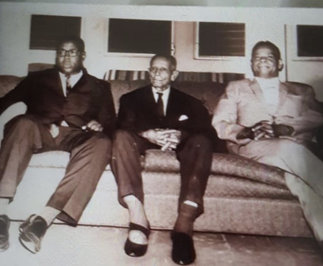 This photograph portrays Clarence Lorenzo Simpson the first, the second, and Alpha D. Simpson.